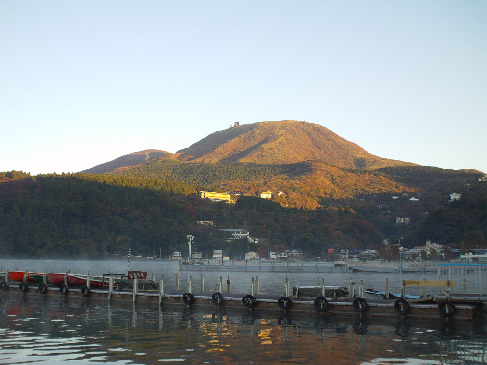 Komagatake is a Hakone volcano's lava dome. Looking the south by east.